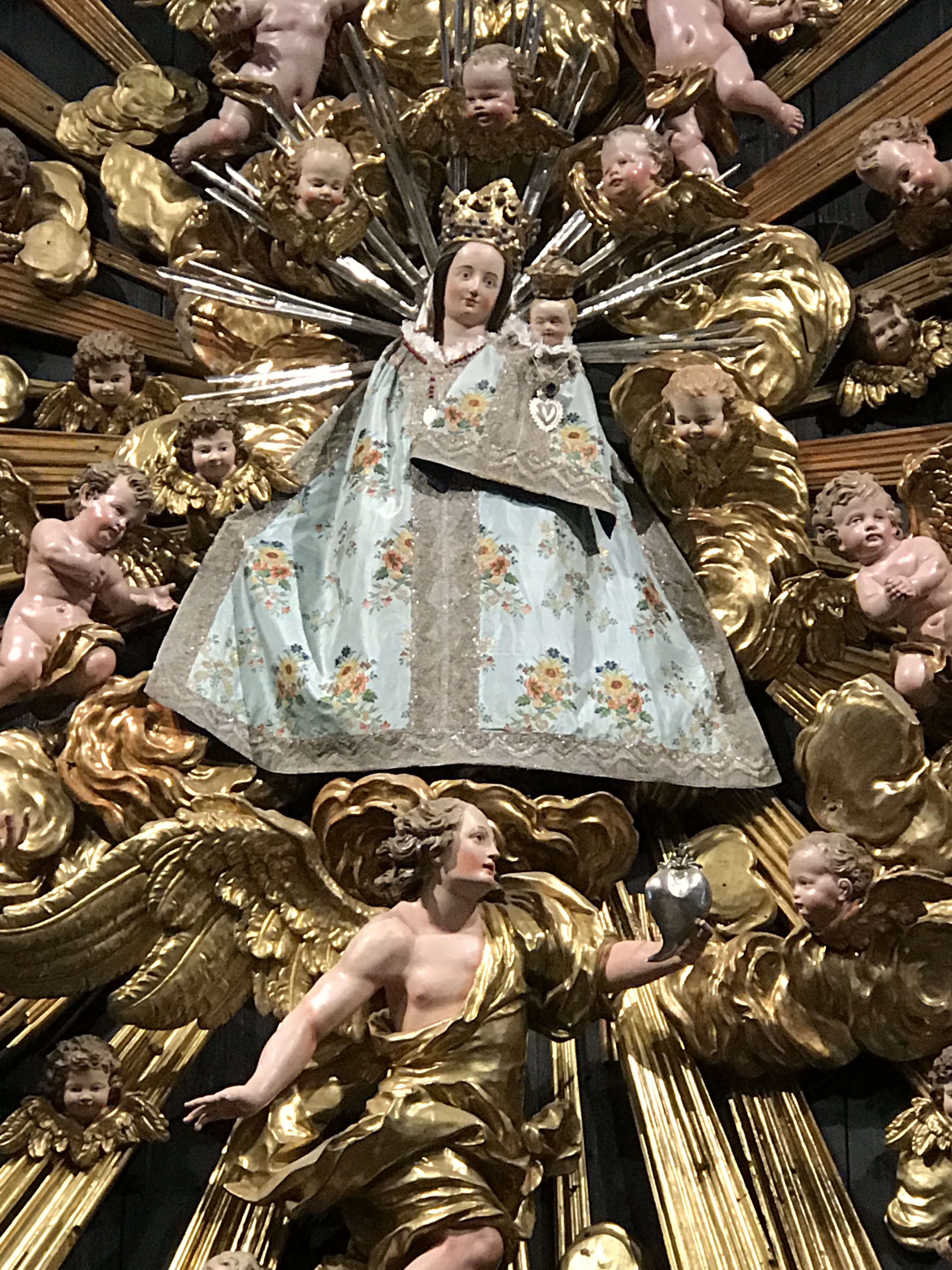 Sanctuary Frauenberg an der Enns (Austria)